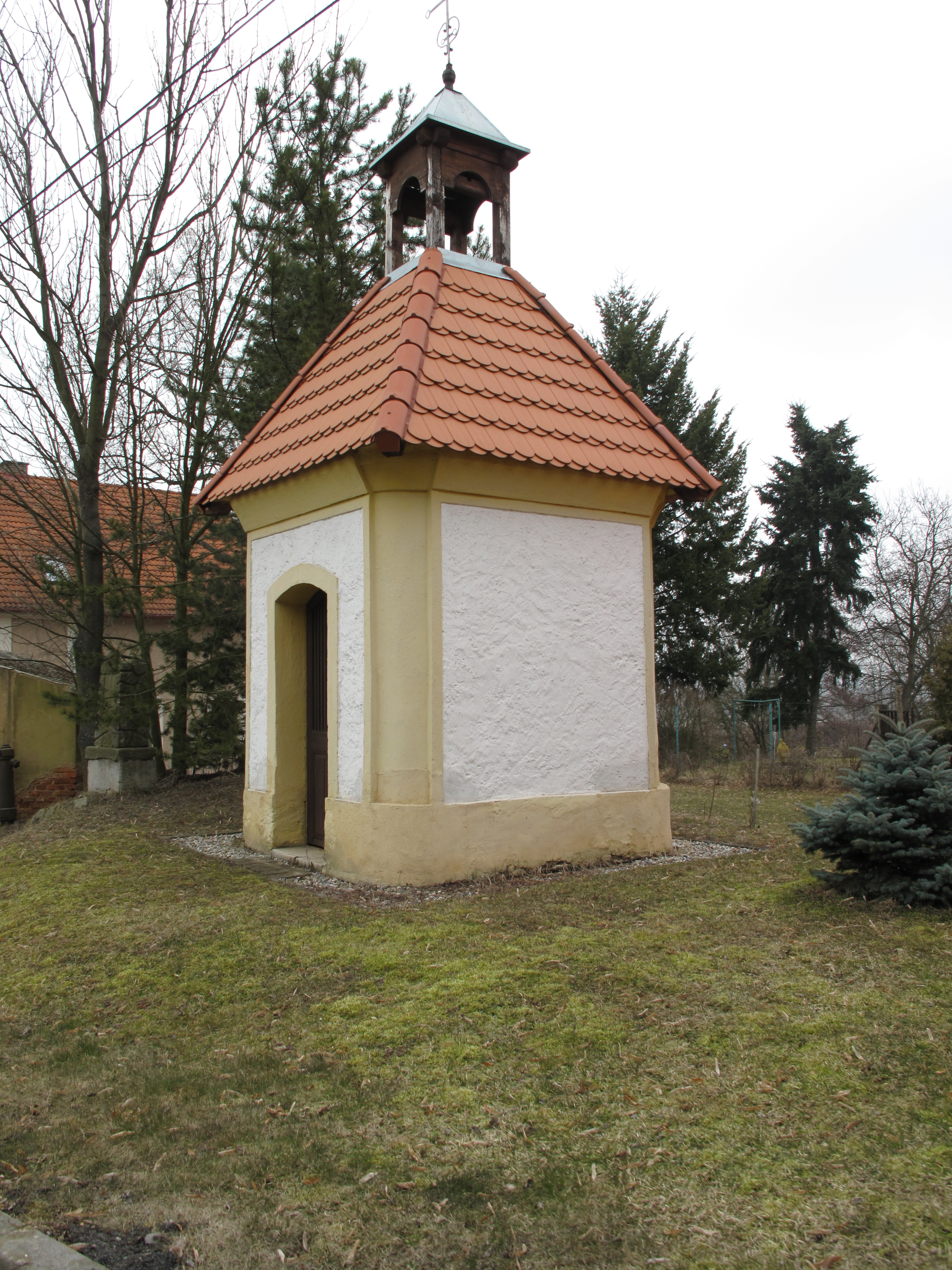 Chapel in Povlčín village, Rakovník District, Czech Republic.